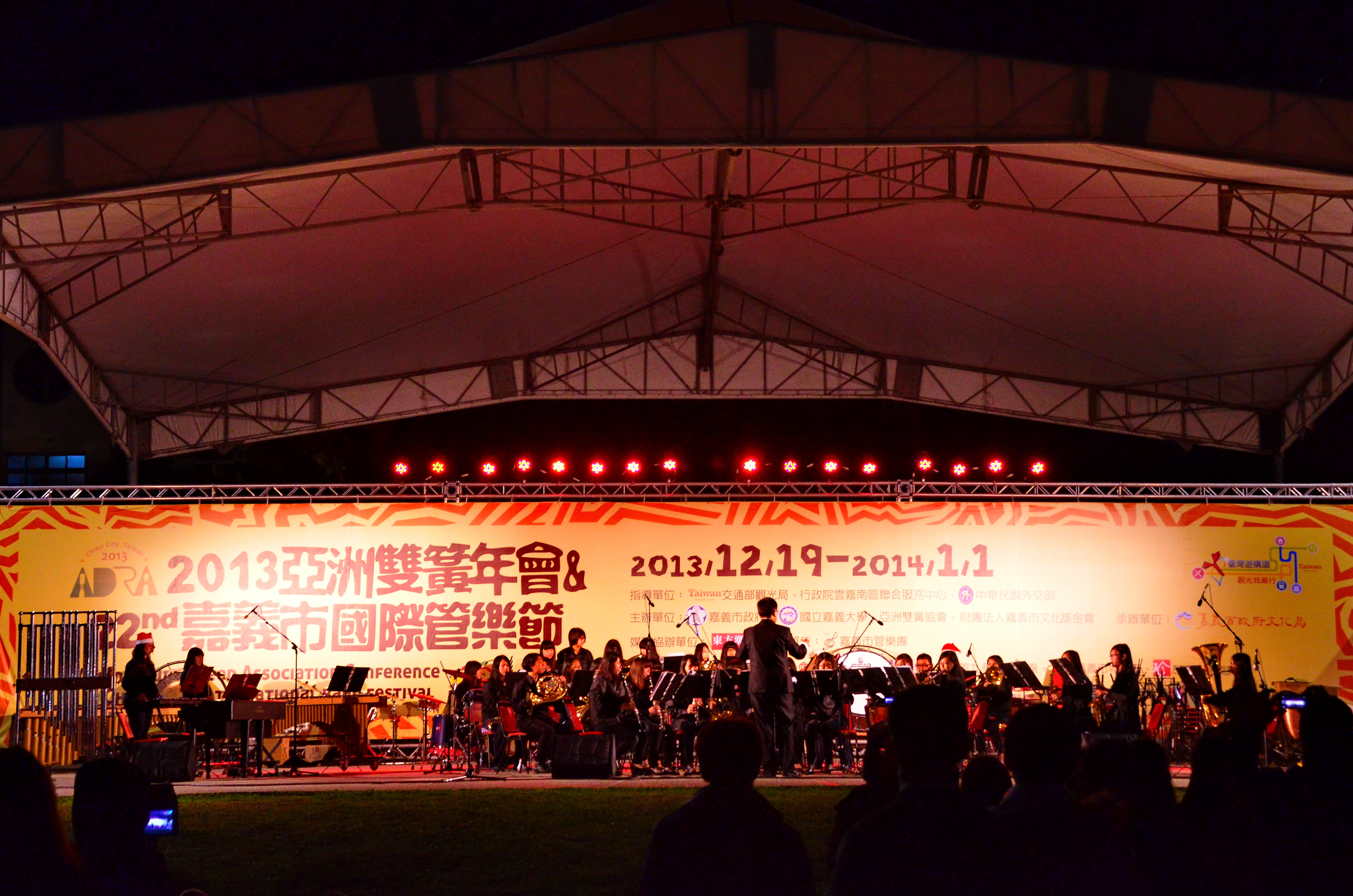 The 22nd Chiayi City International Band Festival, outdoor concert at the Chiayi Cultural Park, Chiayi City, Taiwan.